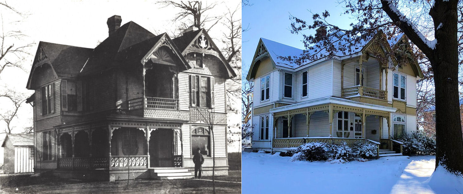 G.F. Barber Design No,38 Cottage Souvenir No.2 112 Springer Avenue/Edwardsville, IL